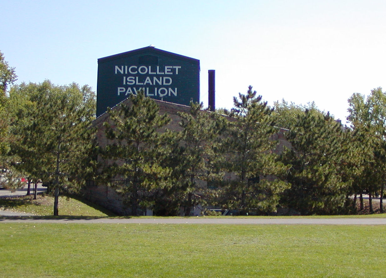 The Nicollet Island Pavilion in Minneapolis, Minnesota